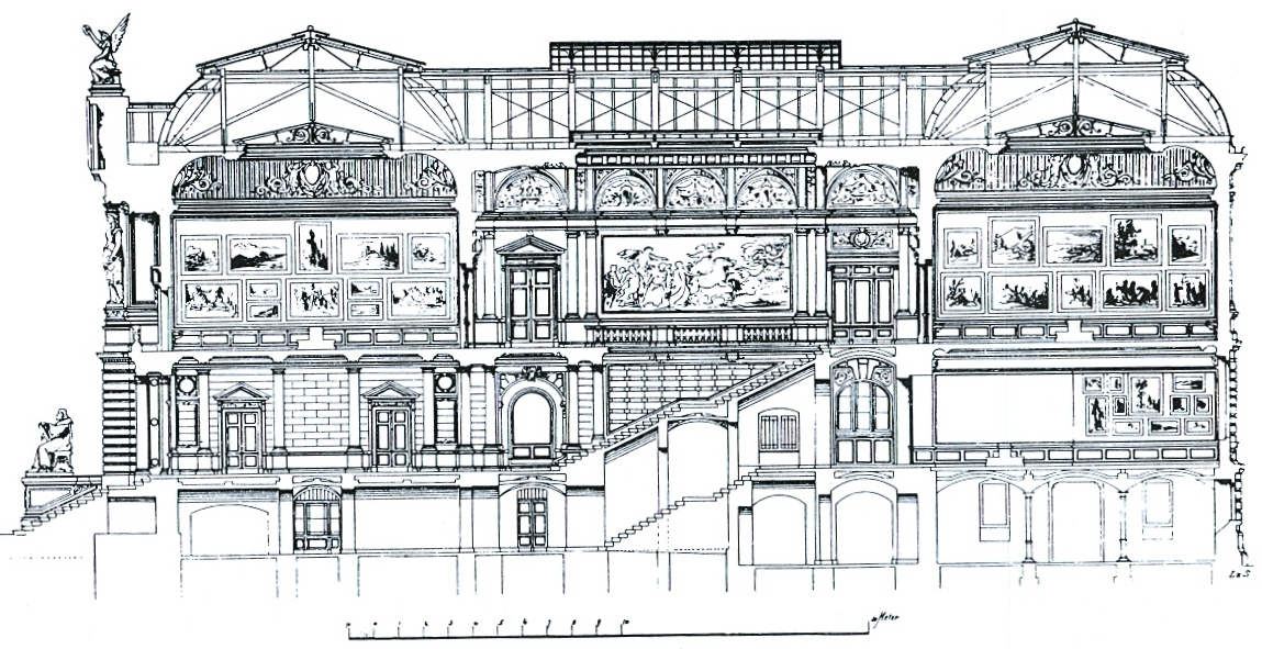 Kunsthalle in Düsseldorf, erbaut 1878 bis 1881 von Ernst Giese und Paul Weidner, Querschnitt.jpg